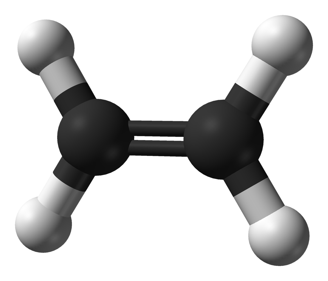 Ball-and-stick model of the ethylene (ethene) molecule, C2H4. Structural information (determined by microwave spectroscopy) from CRC Handbook, 88th edition. Image generated in Accelrys DS Visualizer.